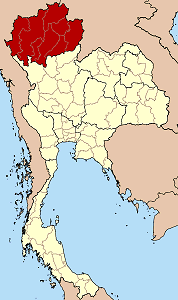 Map of Thailand highlighting the extent of the Roman Catholic diocese of Chiang Mai.